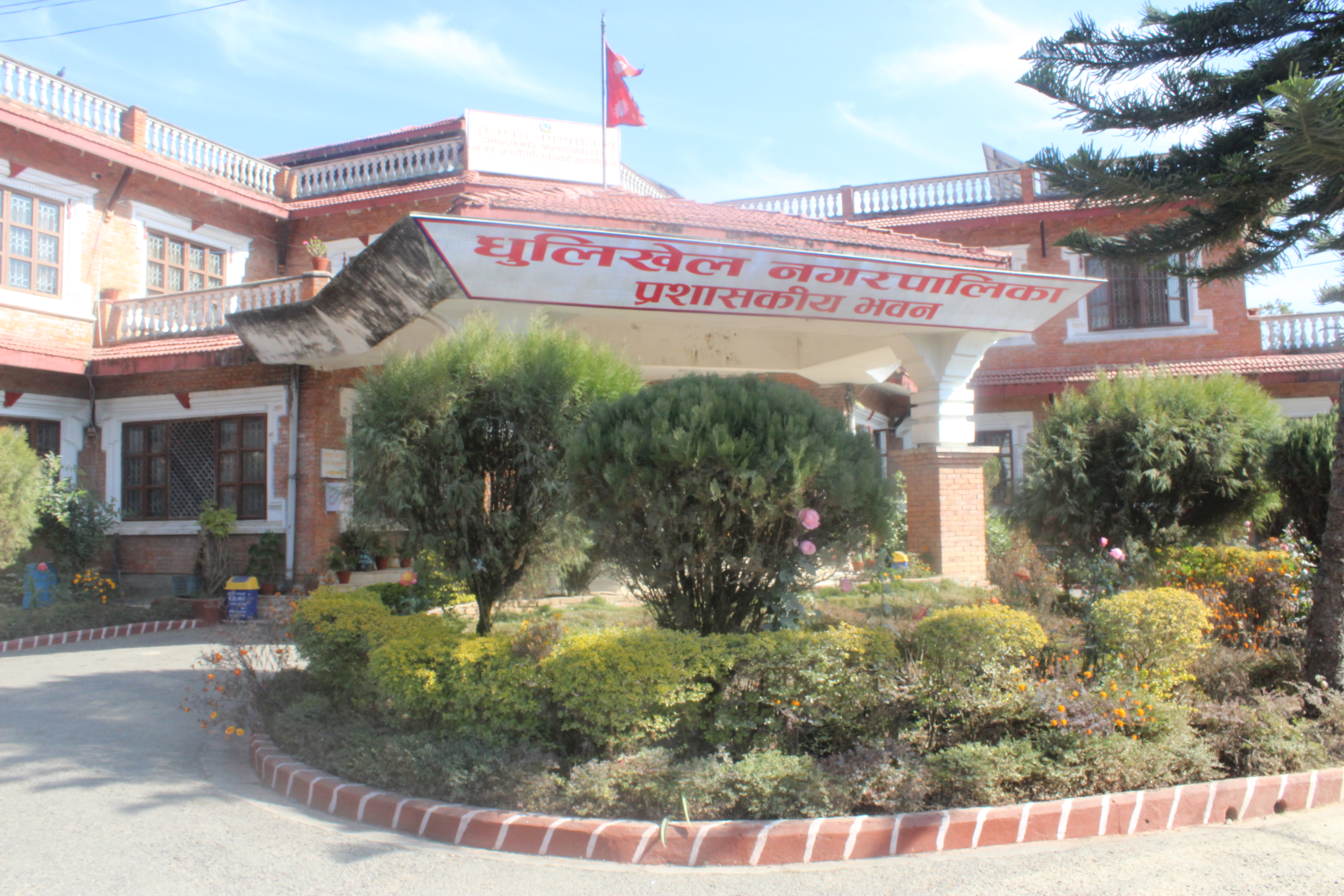 Front Face of the Administrative Building